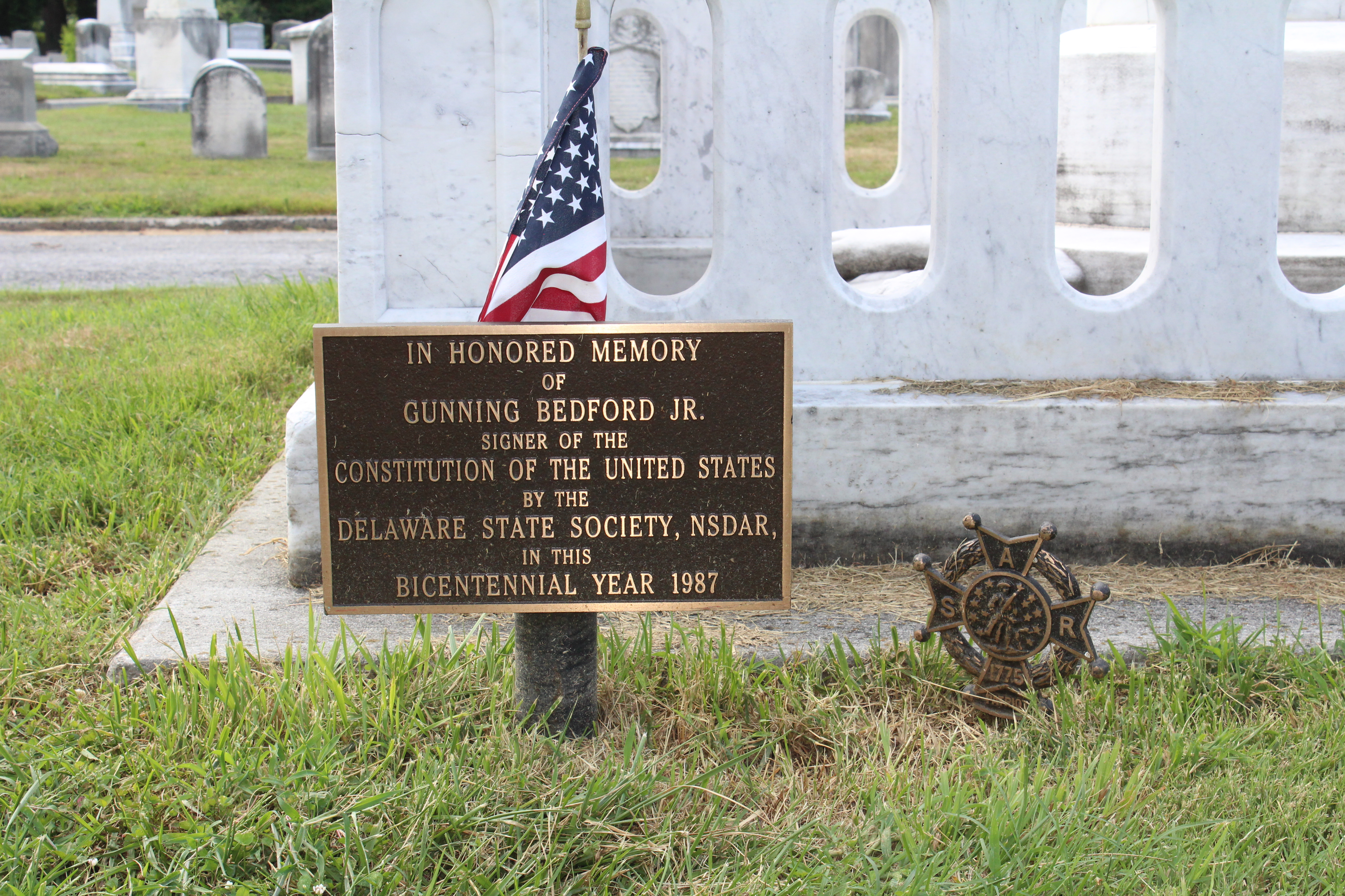 Plaque at base of Gunning Bedford, Jr. Memorial in Wilmington and Brandywine Cemetery in Wilmington, Delaware. Photo taken August 2019.